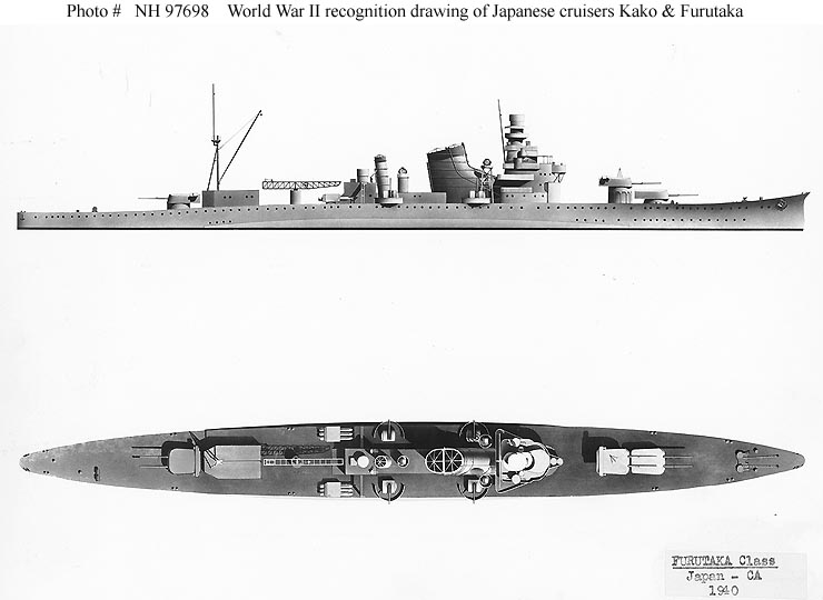 World War II era recognition drawings, showing the ships as they were after their late 1930s modernization.